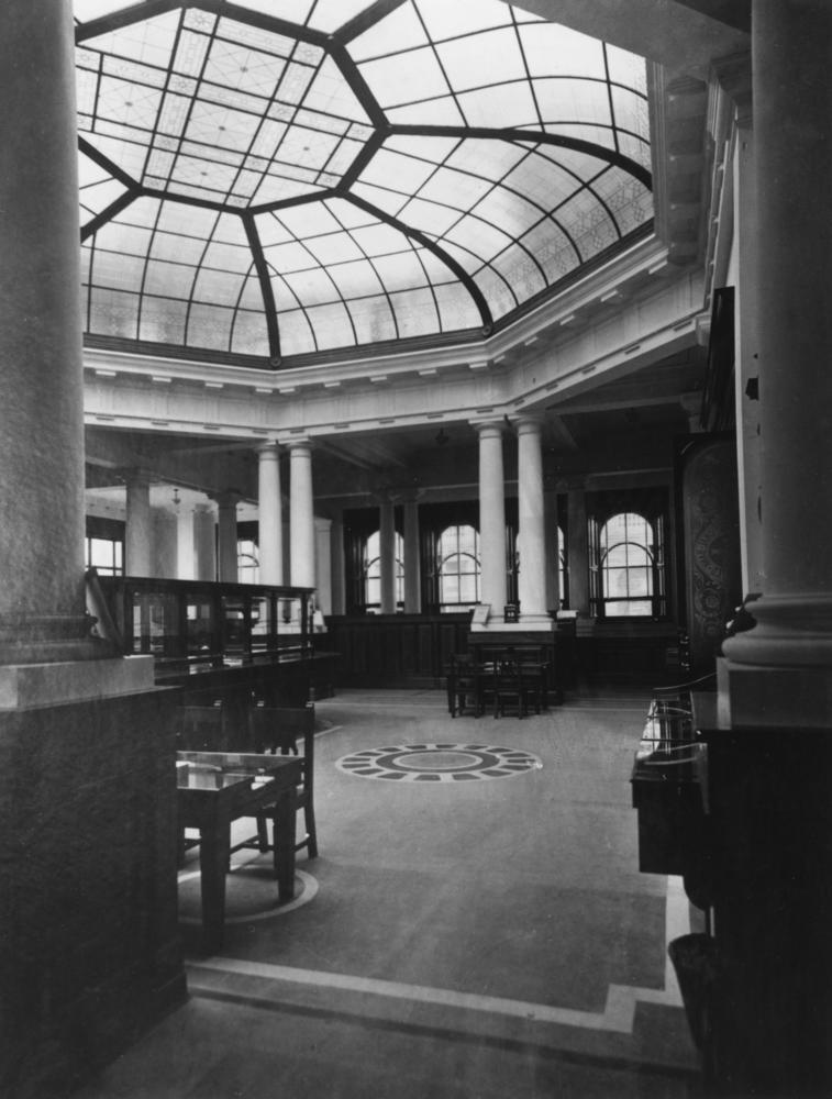 Interior view of the Queensland National Bank, Brisbane, 1922. Featuring the domed glass ceiling.